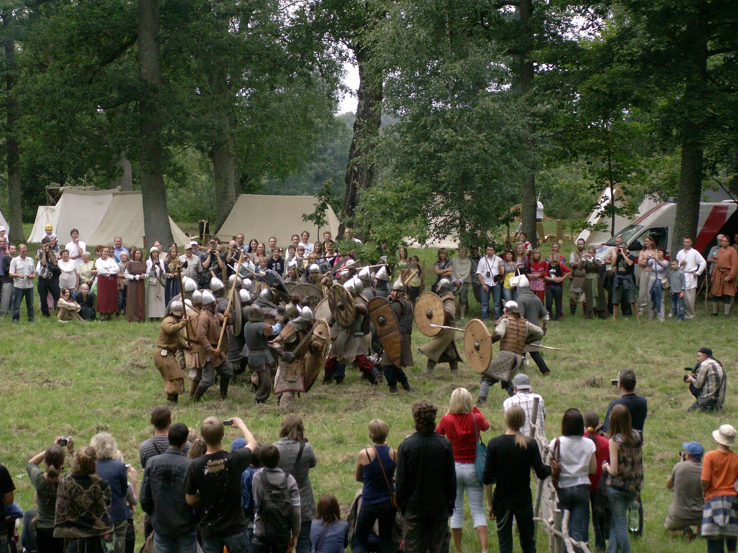 Apuolė 854 medieval festival, Apuolė hillfort, Skuodas district, Lithuania